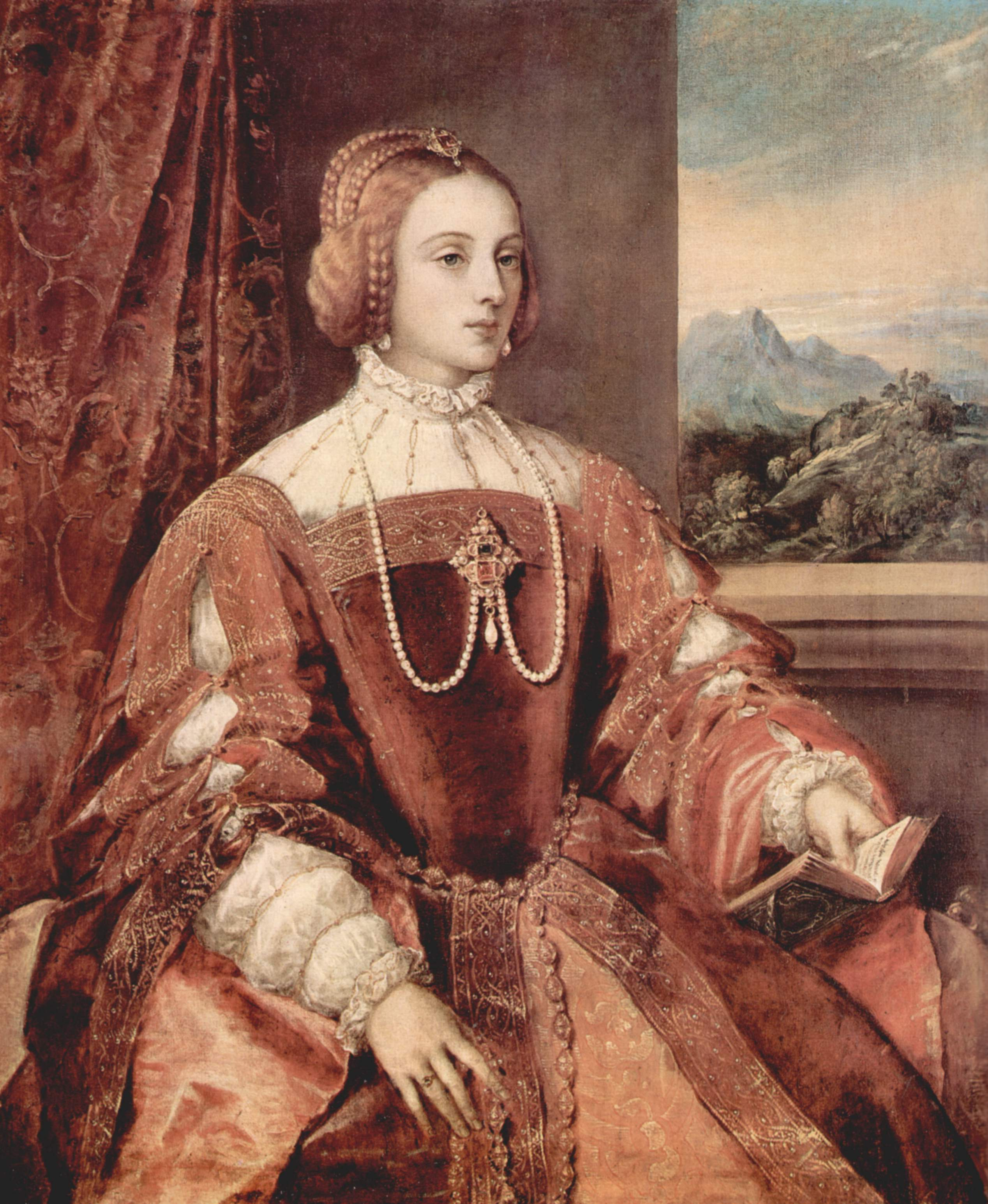 Titian, Empress Isabel of Portugal, 1548, oil on canvas, 117 x 98 cm, Prado museum (Madrid, Spain)